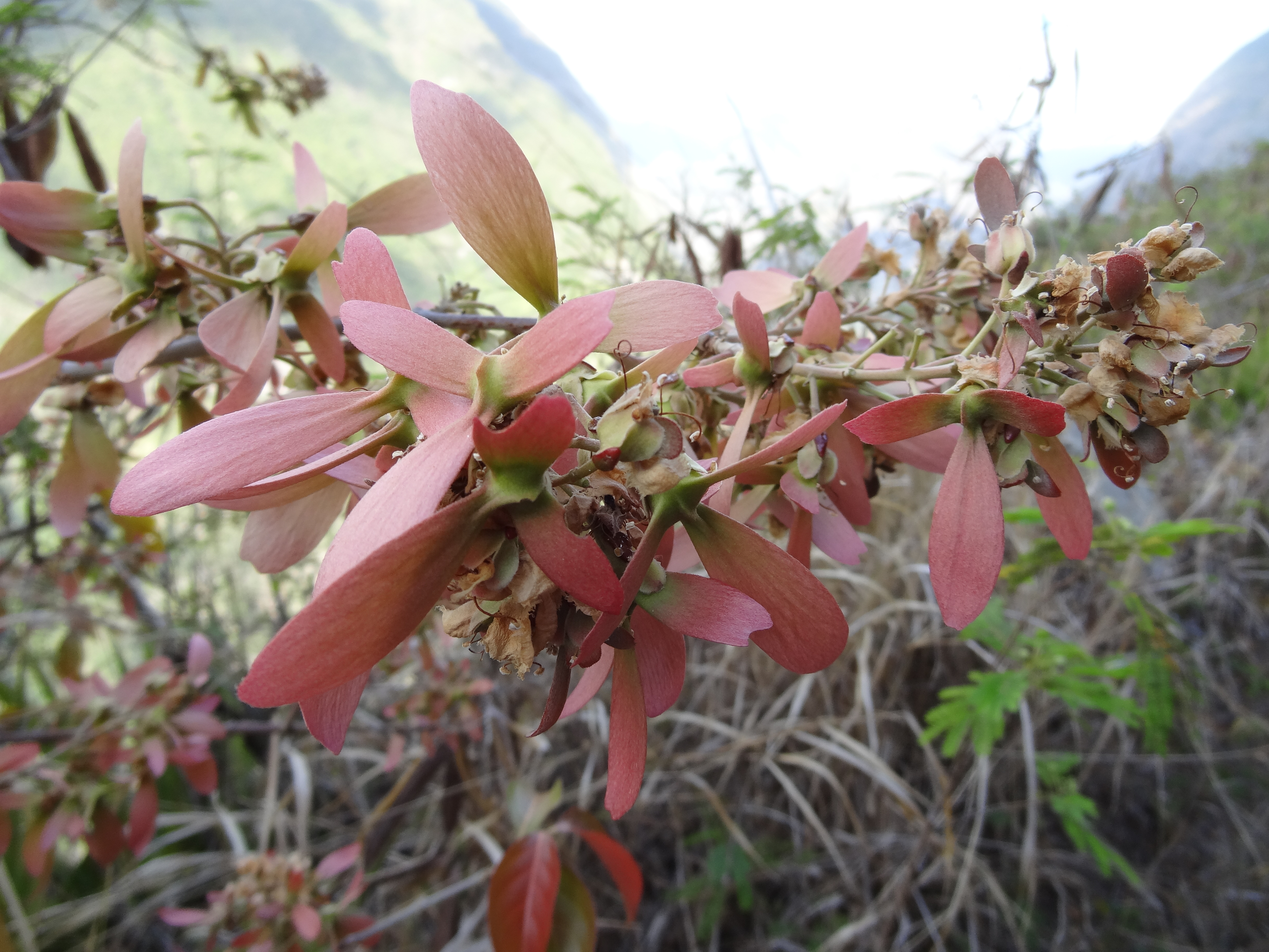 Hiptage benghalensis (fruits). Picture taken on 20 sept. 2016 on the Reunion island, in the "Cirque de Mafate", along the "Sentier des Orangers".